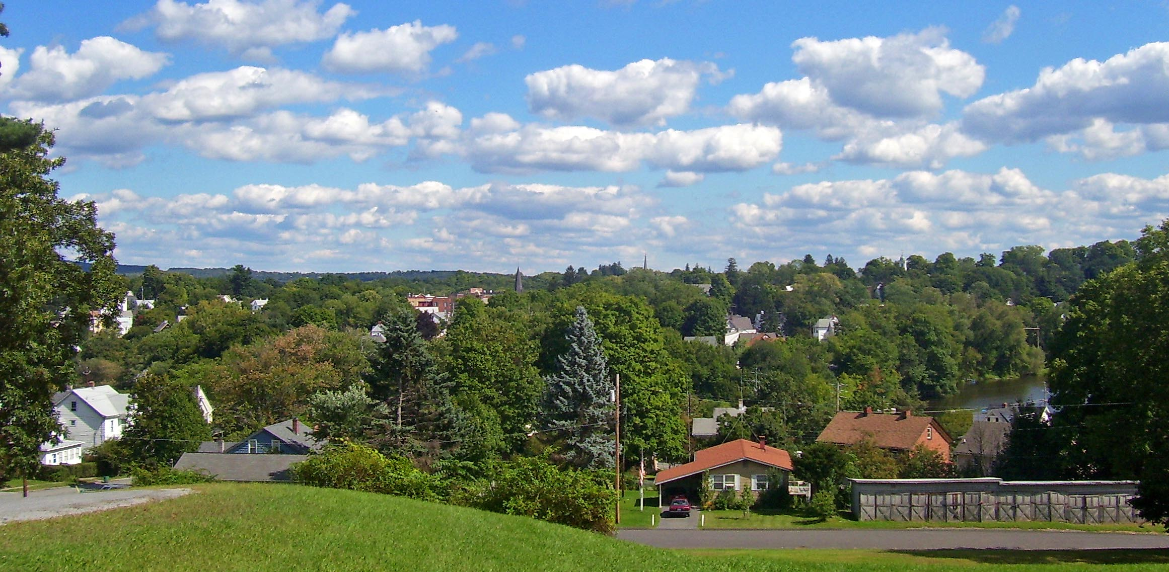 View of Walden, NY, USA looking out to the northeast (Compare Image:Walden, NY, skyline.jpg, from higher ground with a lower-quality camera, and File:Walden, NY, after February 2013 nor'easter.jpg, in winter from almost the same location)